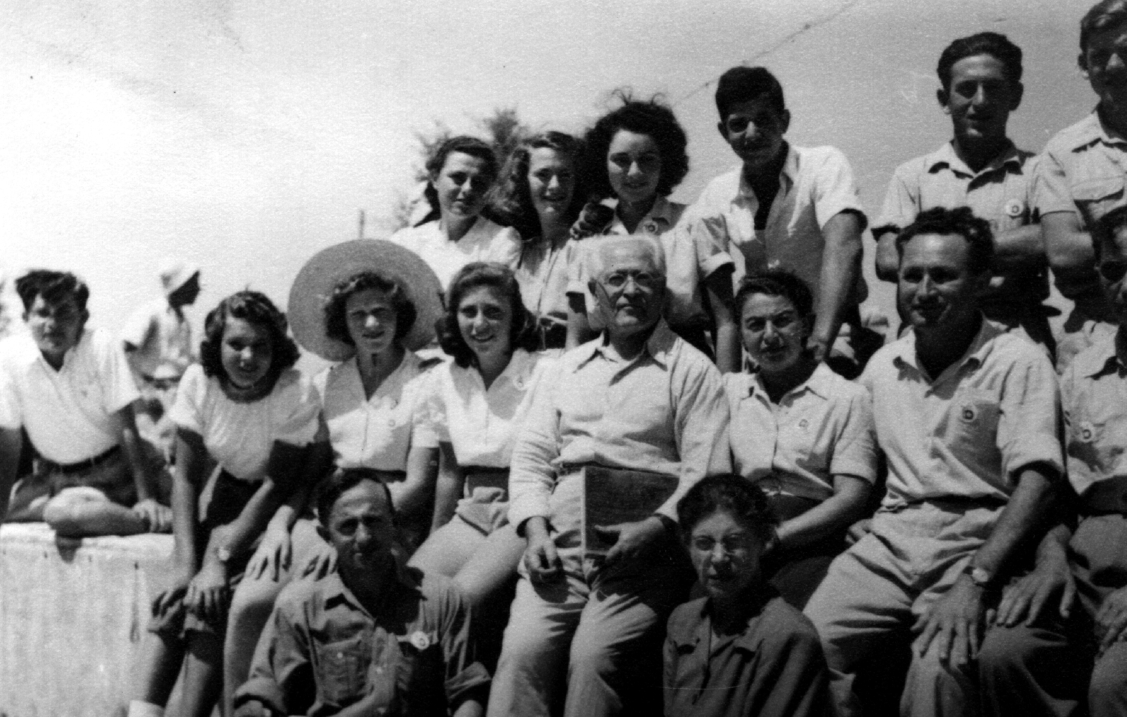 People of Israel